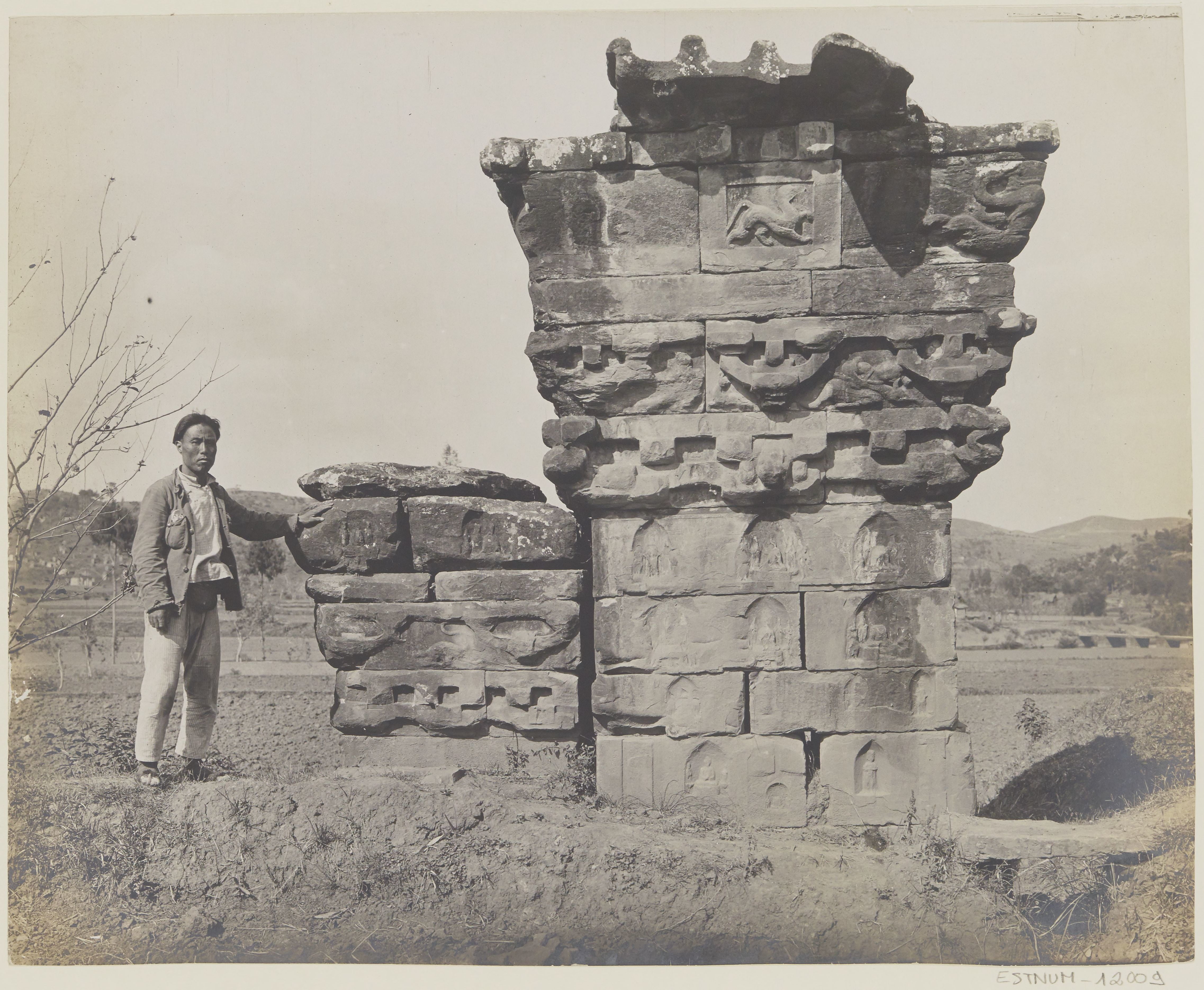 The right tower of the gate at the tomb of the Prefect of Pingyang, in Mianyang, Sichuan